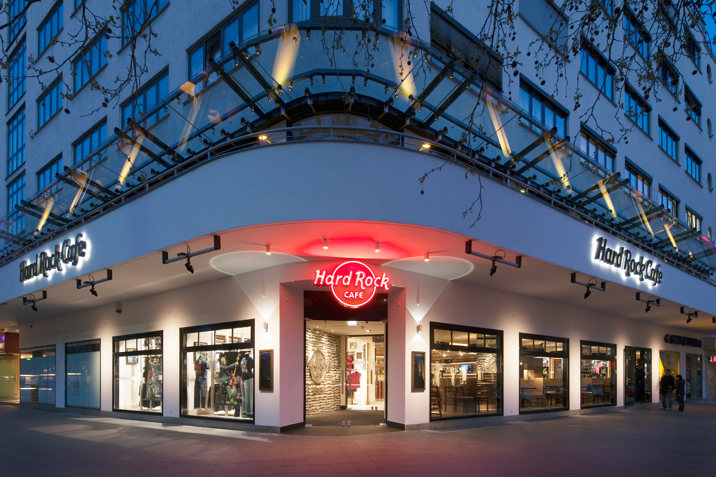 Hard Rock Cafe Berlin